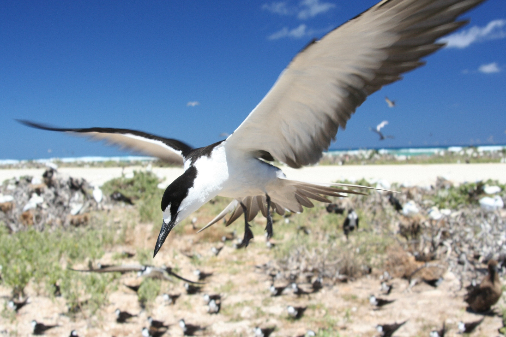 Sooty Tern Onychoprion fuscatus (syn. Sterna fuscata) flying in colony on Tern Island, French Frigate Shoals